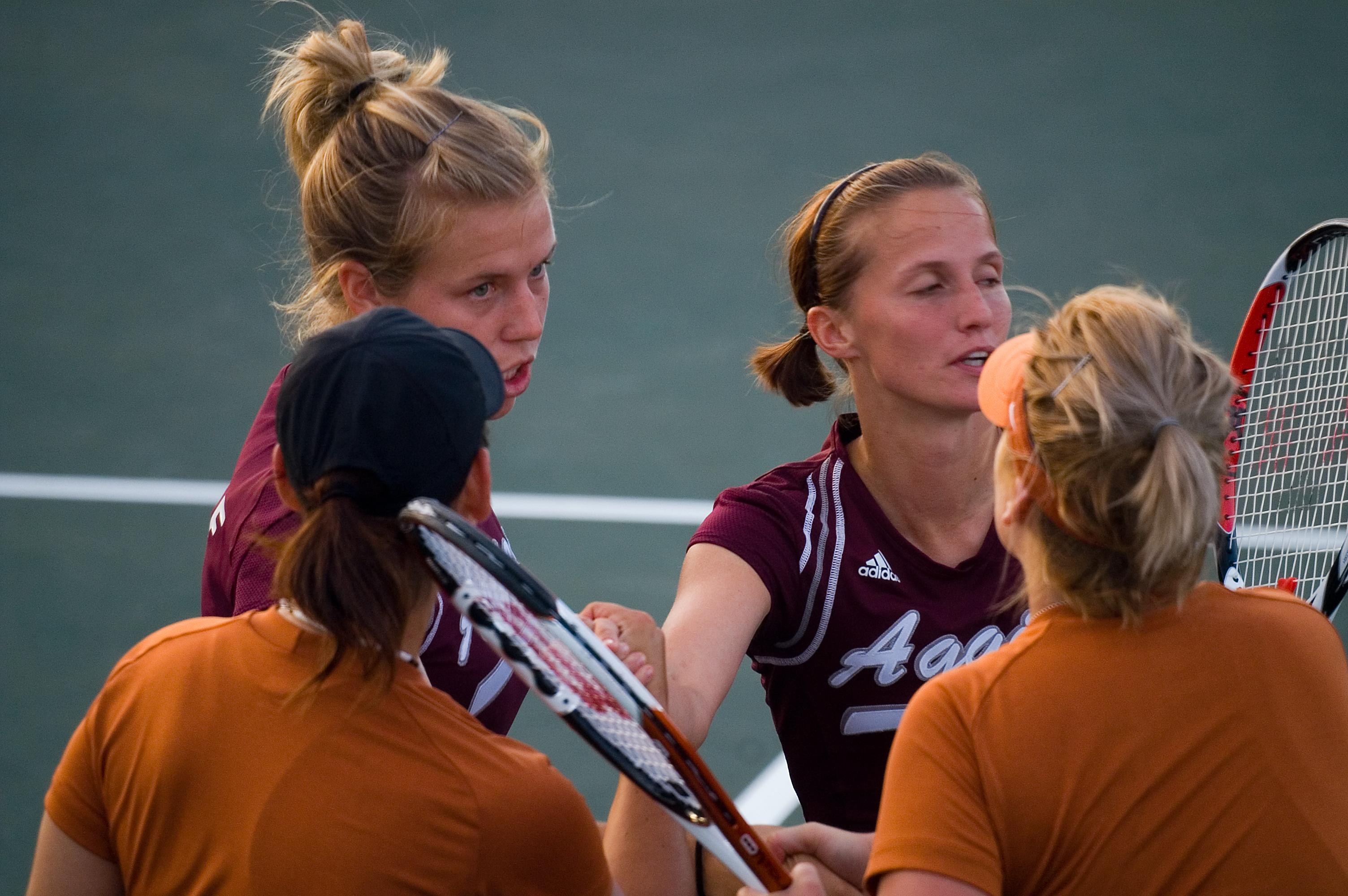 Texas A&M University - Aggie Women's Tennis vs UT Austin - April 16, 2008